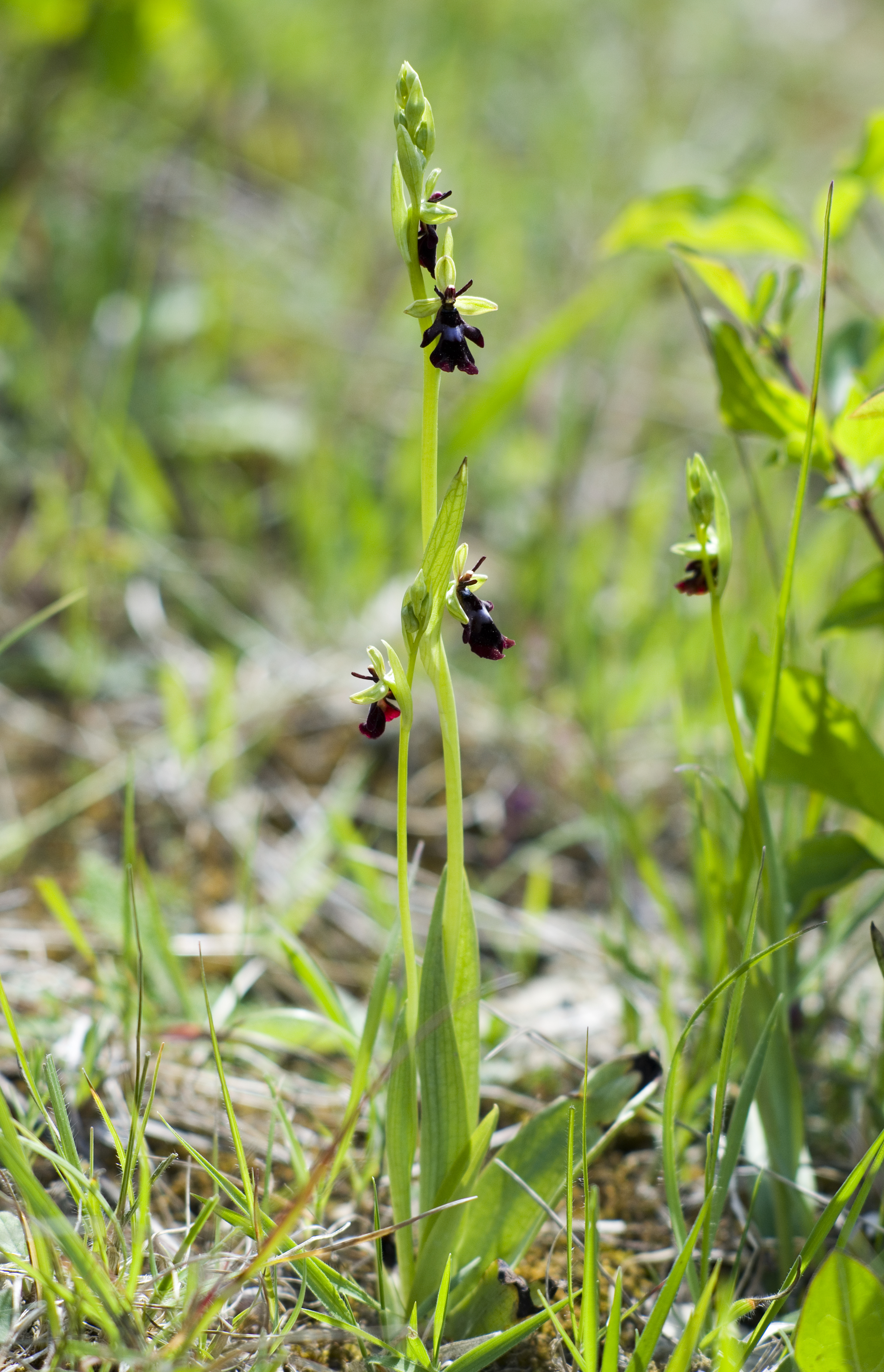 Ophrys insectifera, the fly orchid on a Czech locality